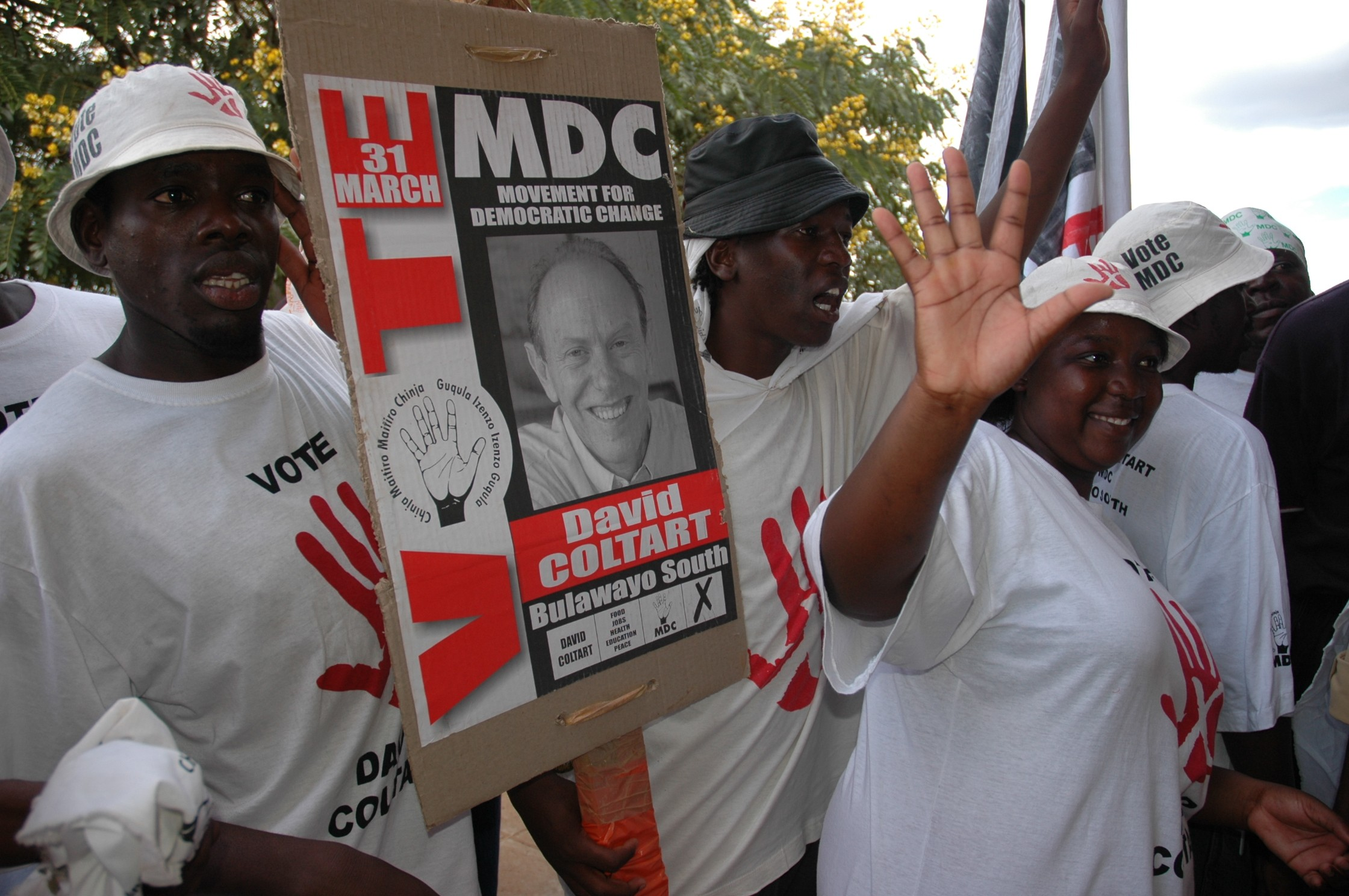 MDC supporters of David Coltart outside Nketa Community Hall, Bulawayo, in the run up to the March 2005 Parliamentary General Election in Zimbabwe.